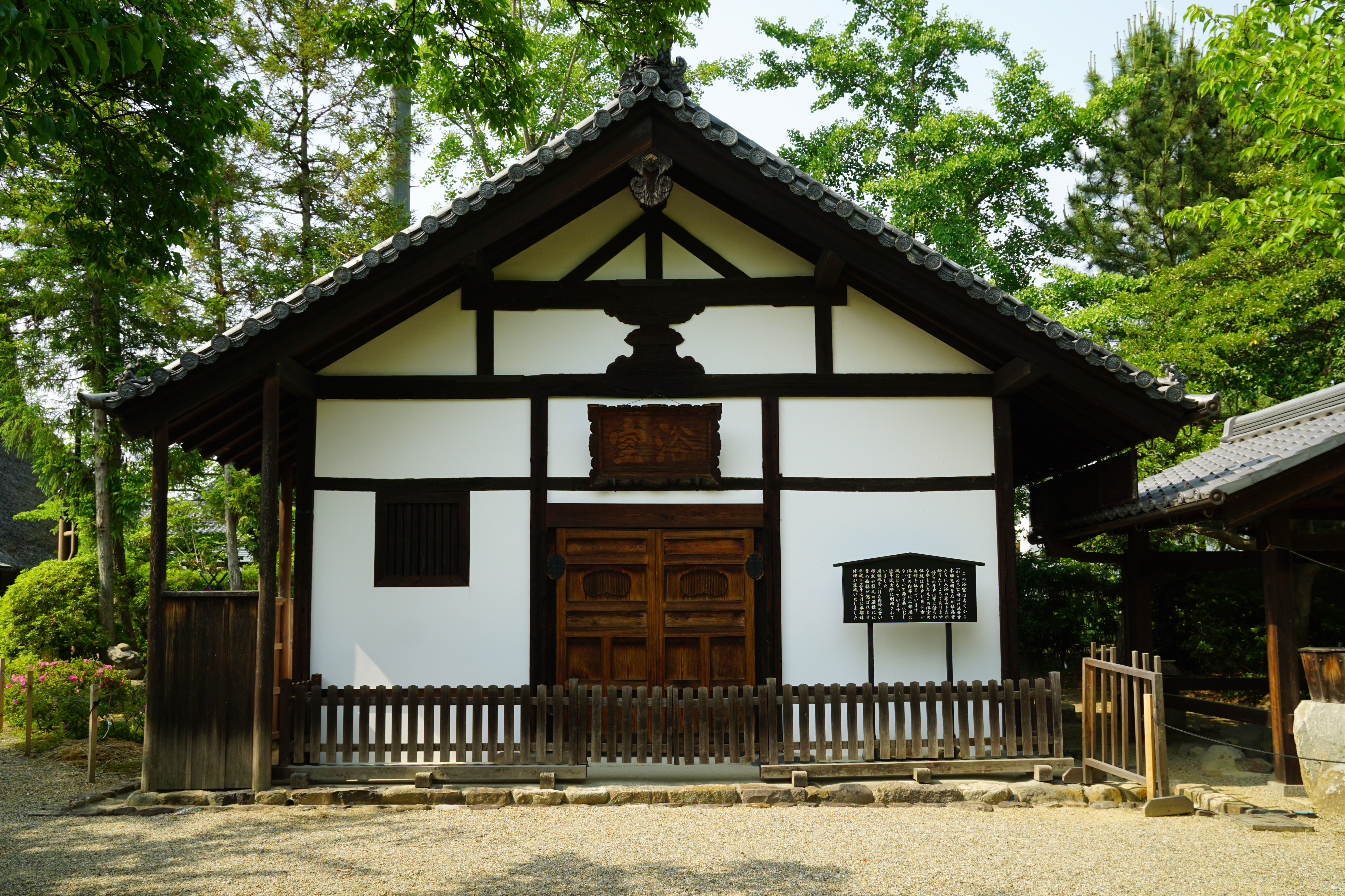 Hokke-ji in Nara, Nara prefecture, Japan.